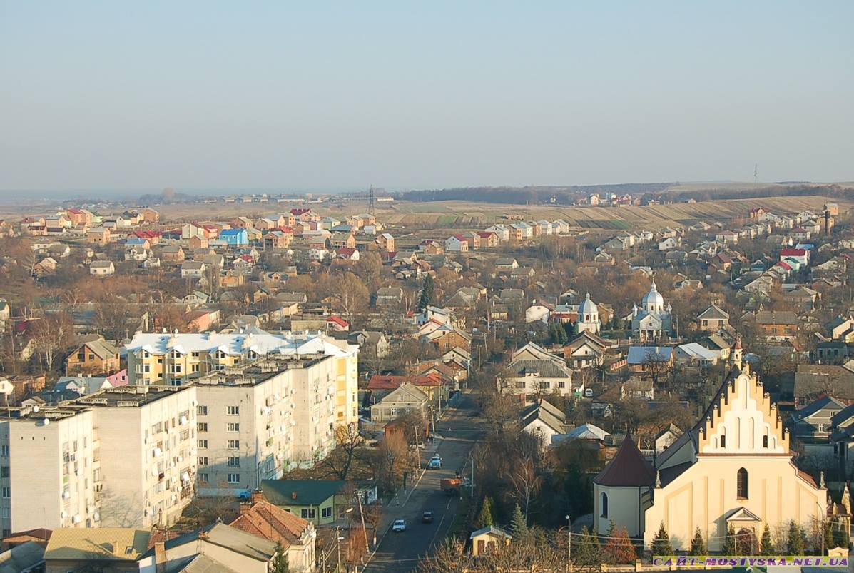 Мостиська з висоти пташиного польоту